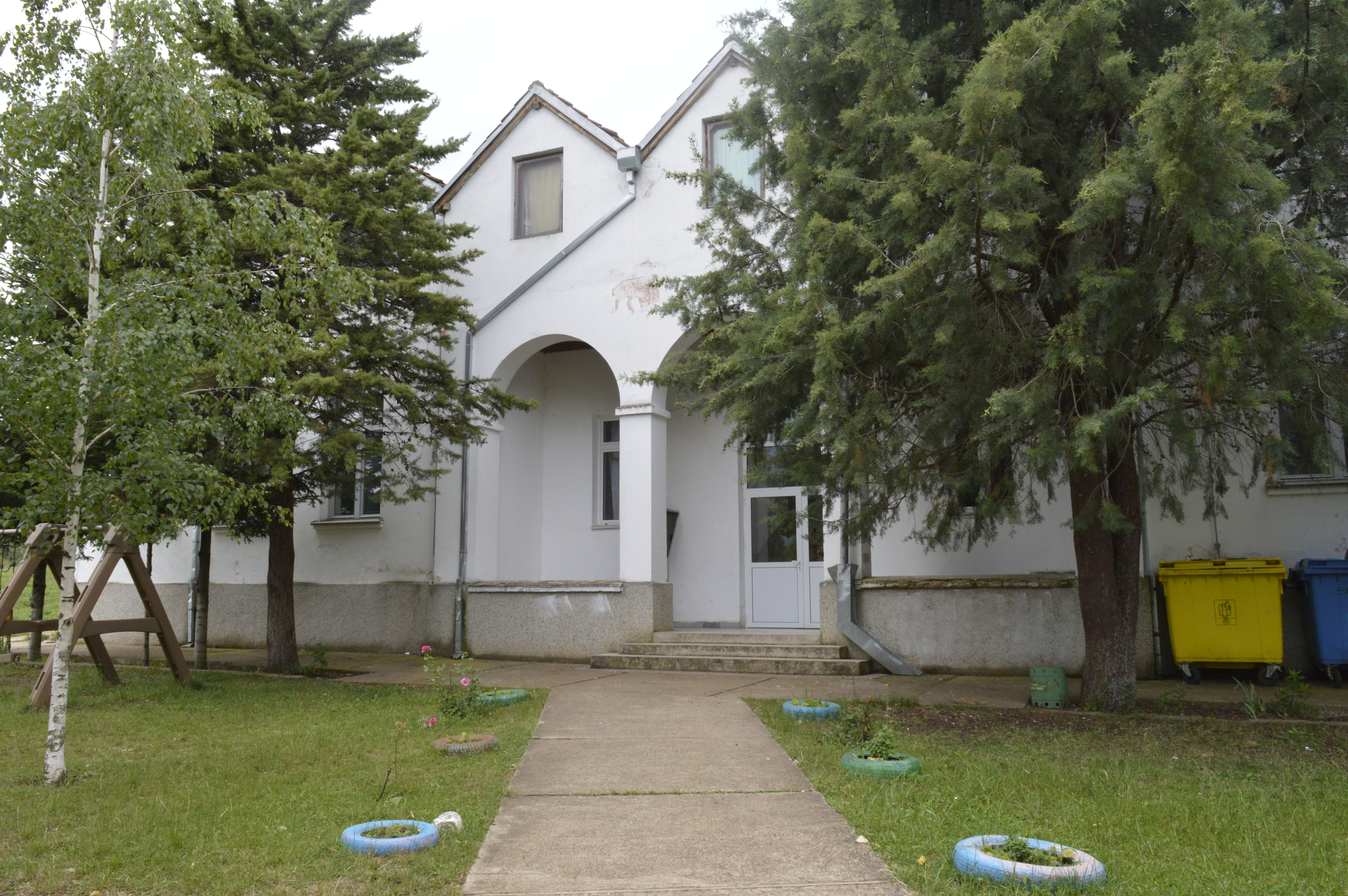 Primary school in the village Bogomila